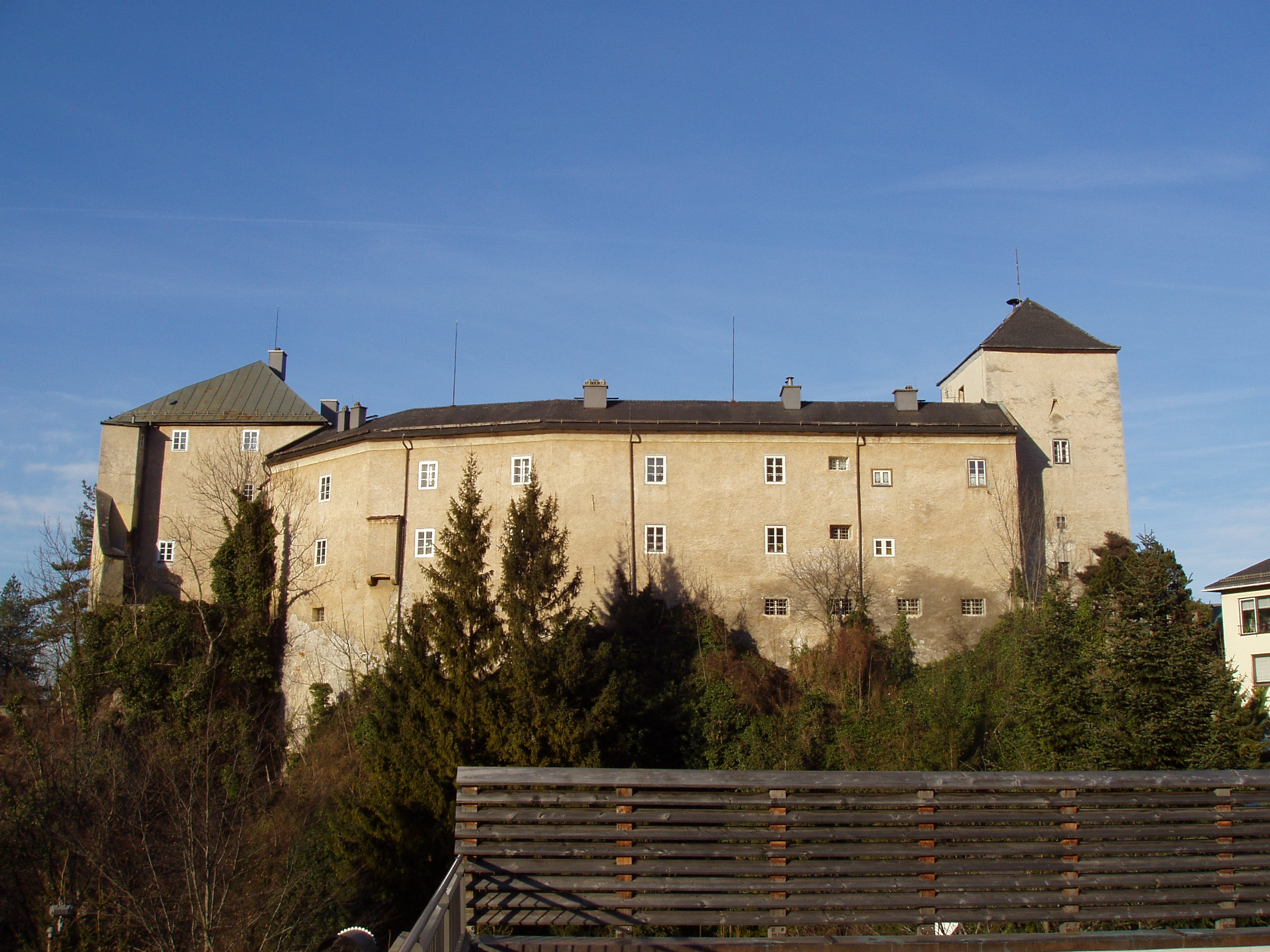 This is the southern side of the Castle of Golling (a small municipality in Austria)